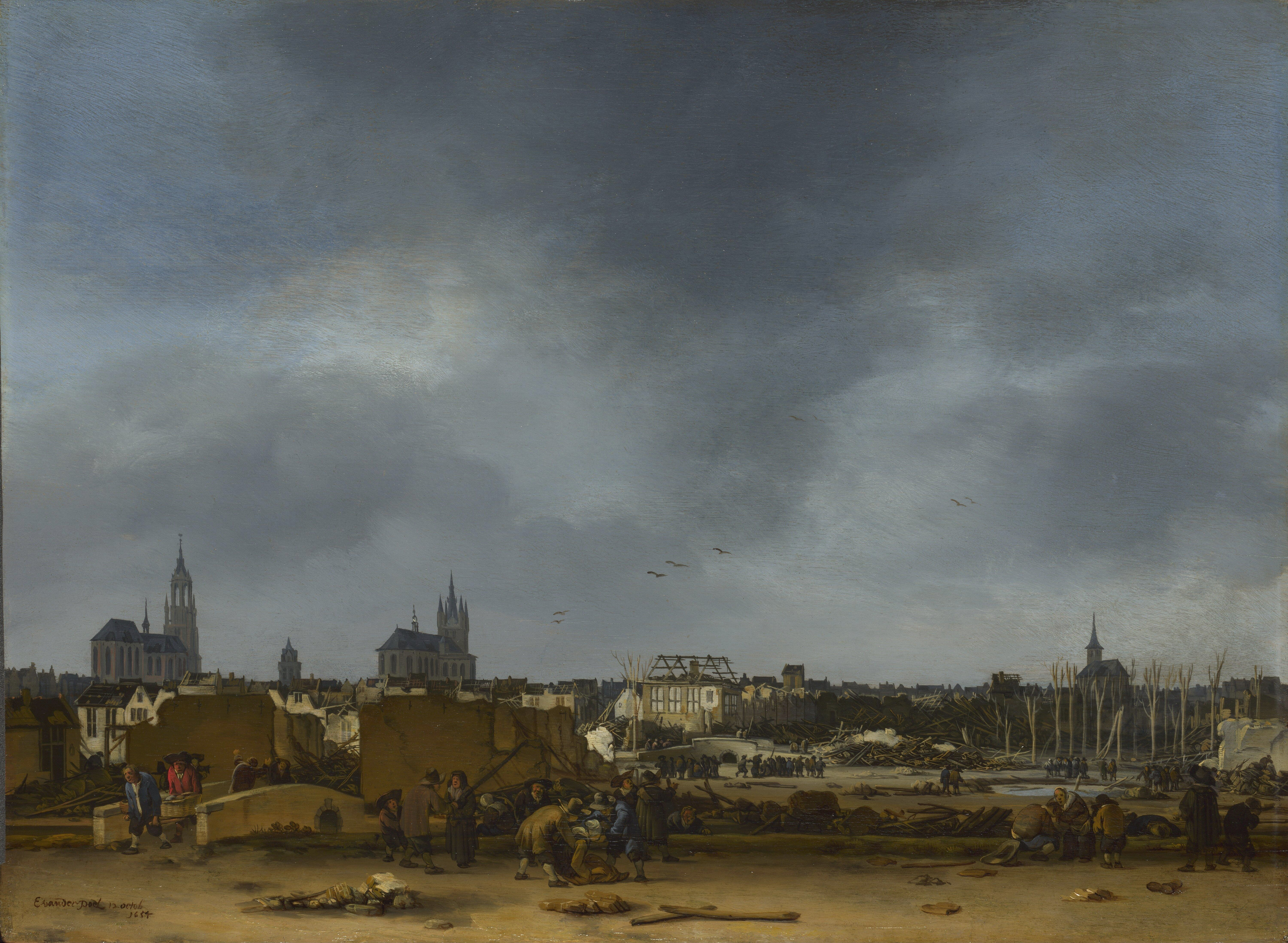 View of Delft after the Delft Explosion of 12 October 1654, in which most of the city was damaged